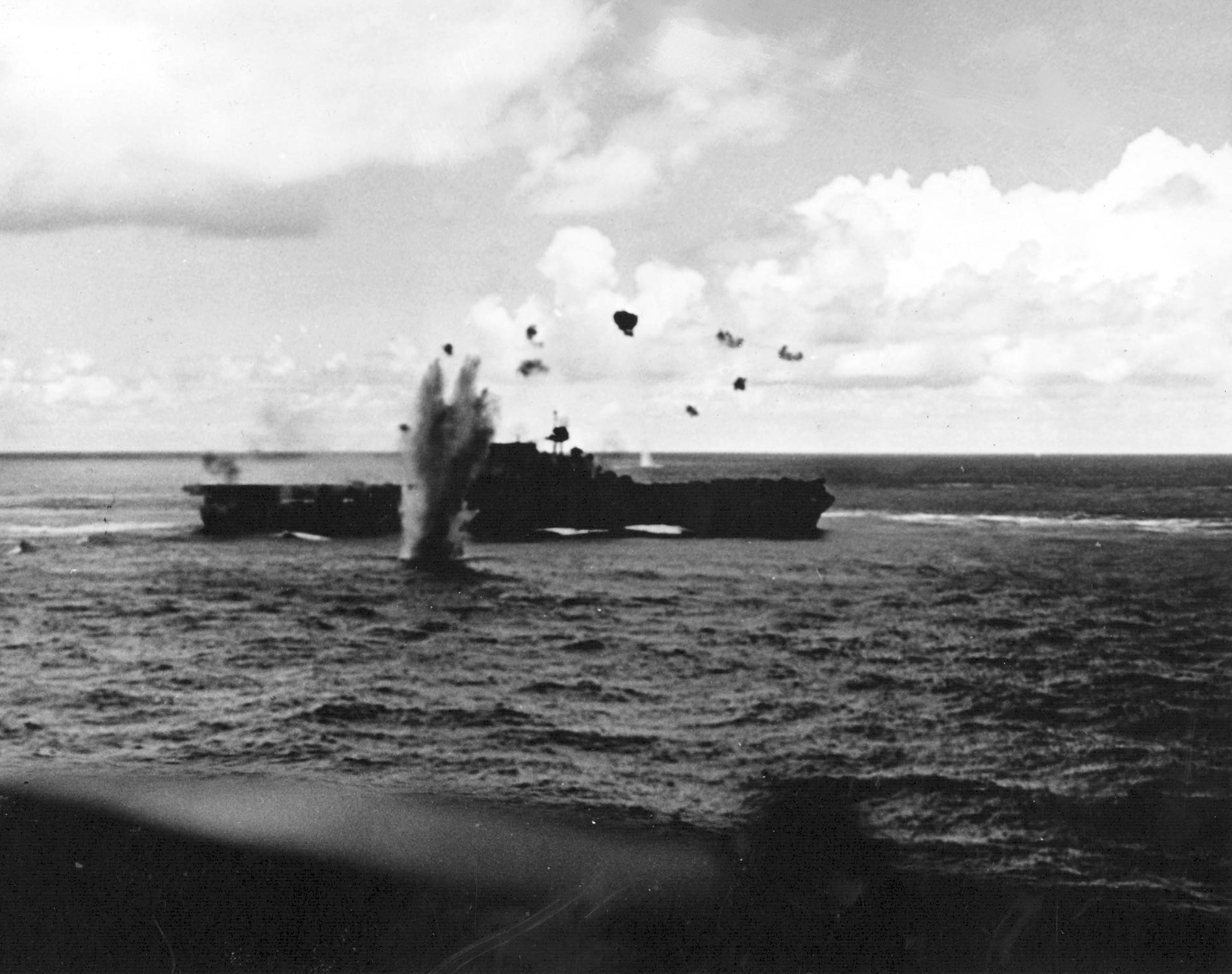 A bomb from a Japanese Aichi D3A2 dive-bomber from the carrier Junyo barely misses the U.S. Navy aircraft carrier USS Enterprise (CV-6) during the Battle of the Santa Cruz Islands on 26 October 1942. The dive-bomber was shot down and crashed on the other side of the Big E.